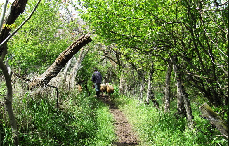 A farmer and his sheep. Tekiehnaveh, Taleghan, Alborz, Iran